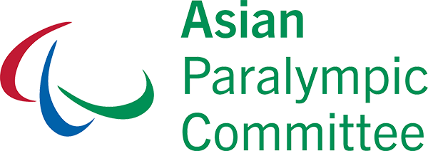 The logo of Asian Paralympic Committee